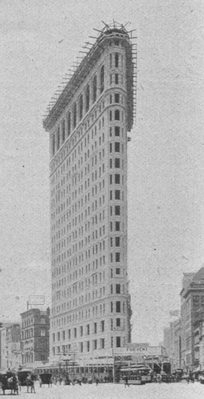 The Flatiron Building, New York City, in 1902.